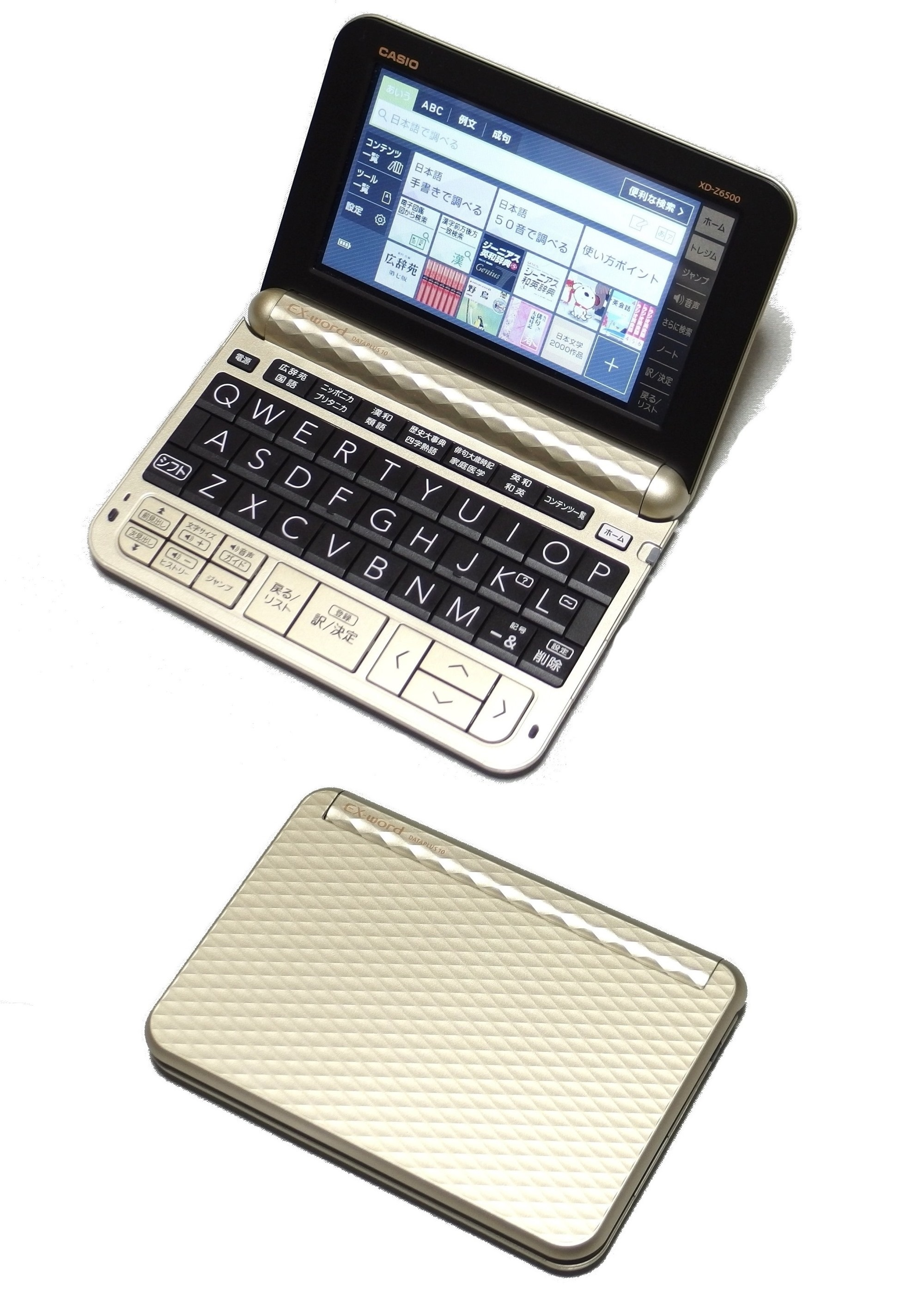 EX-word XD-Z6500, a Japanese IC dictionary, manufactured by Casio Computer in 2018.